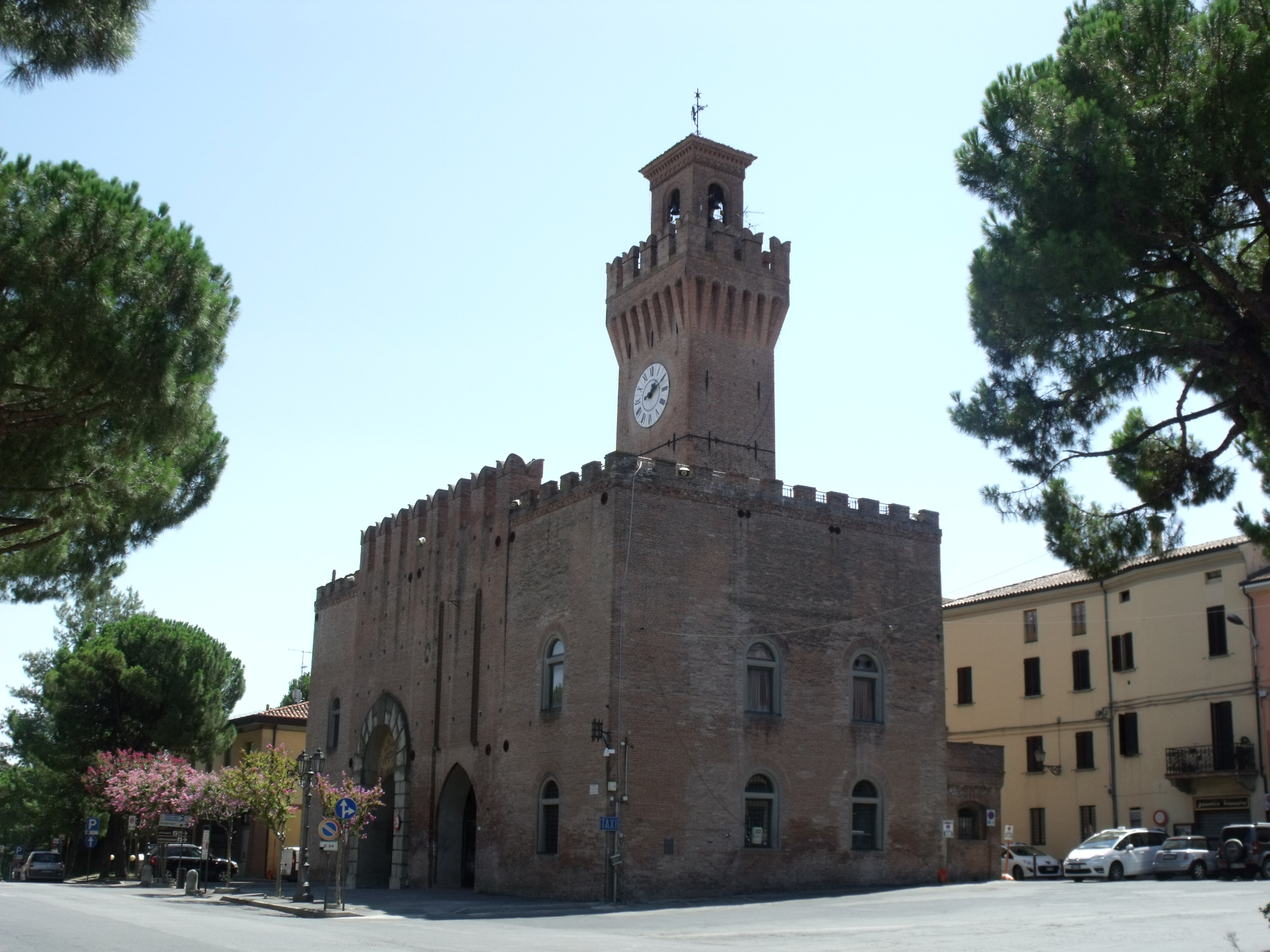 Cassero in Castel San Pietro Terme, Province of Bologna, Emilia-Romagna, Italy